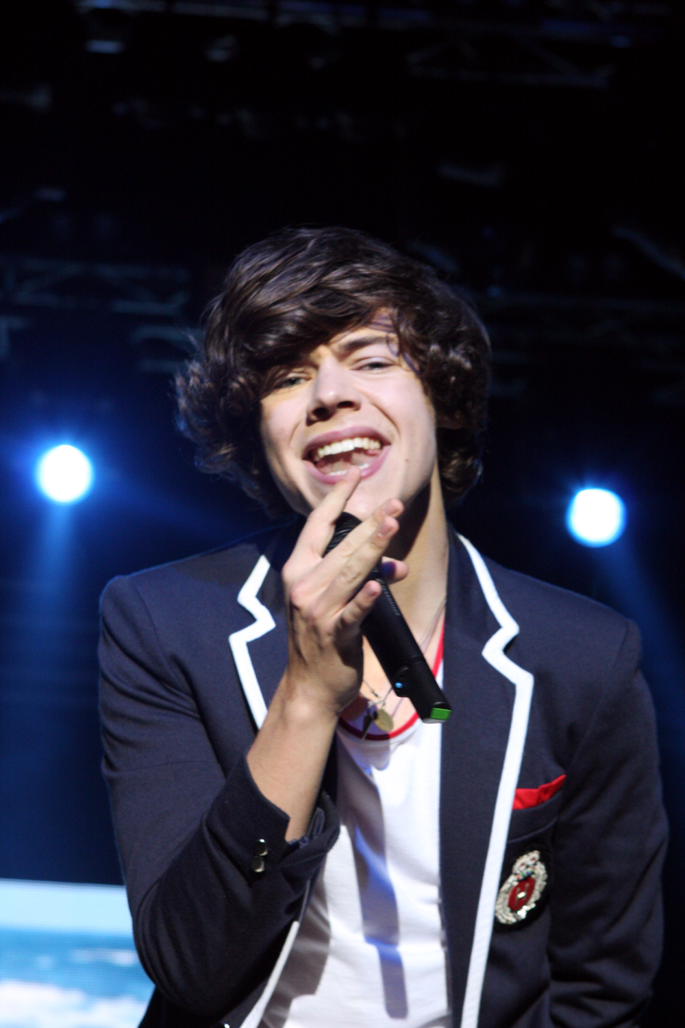 Harry Styles at Hordern Pavilion, Moore Park, Sydney, Australia